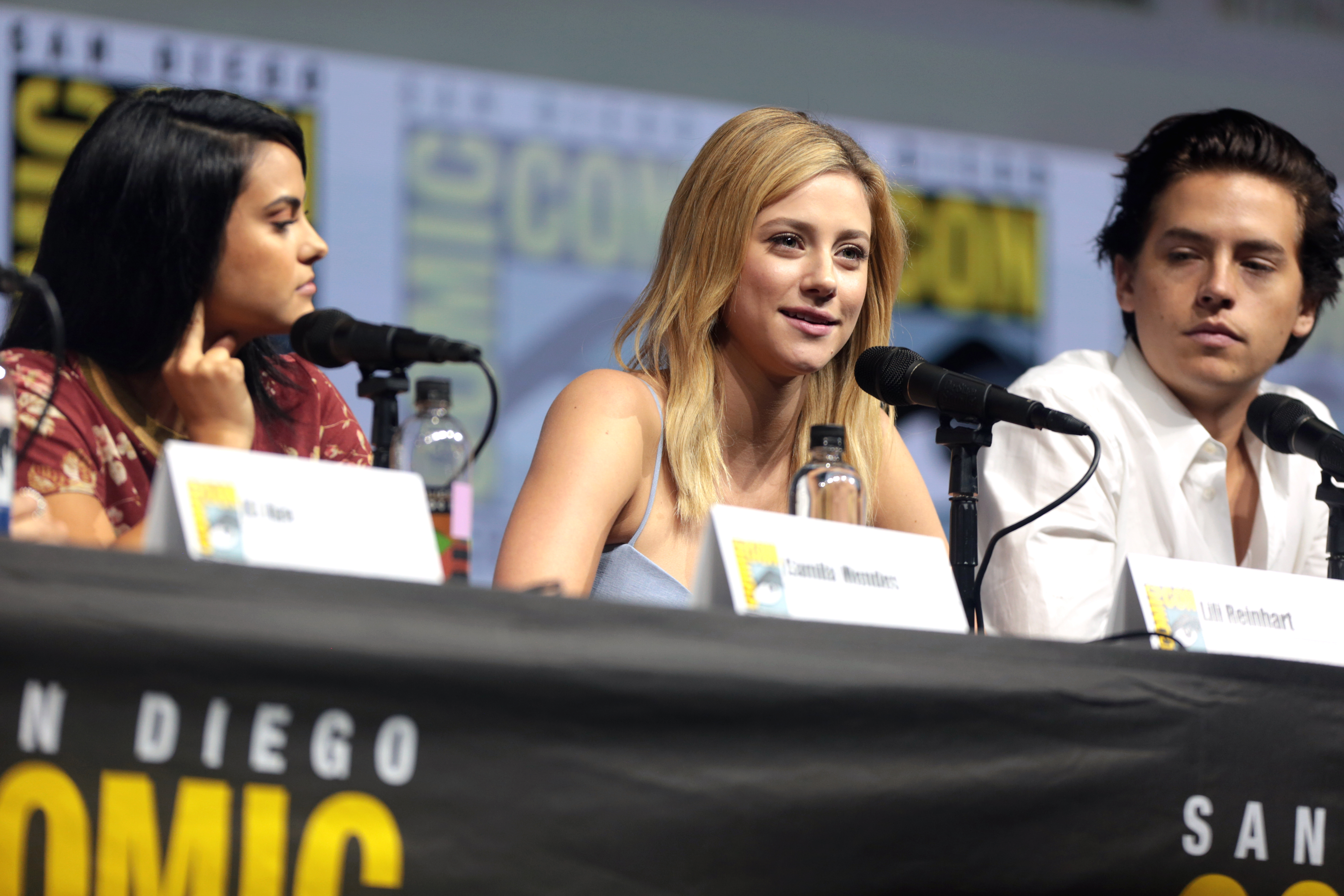 Camila Mendes, Lili Reinhart and Cole Sprouse speaking at the 2018 San Diego Comic Con International, for "Riverdale", at the San Diego Convention Center in San Diego, California.